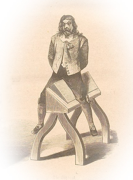 Horse or Chevalet